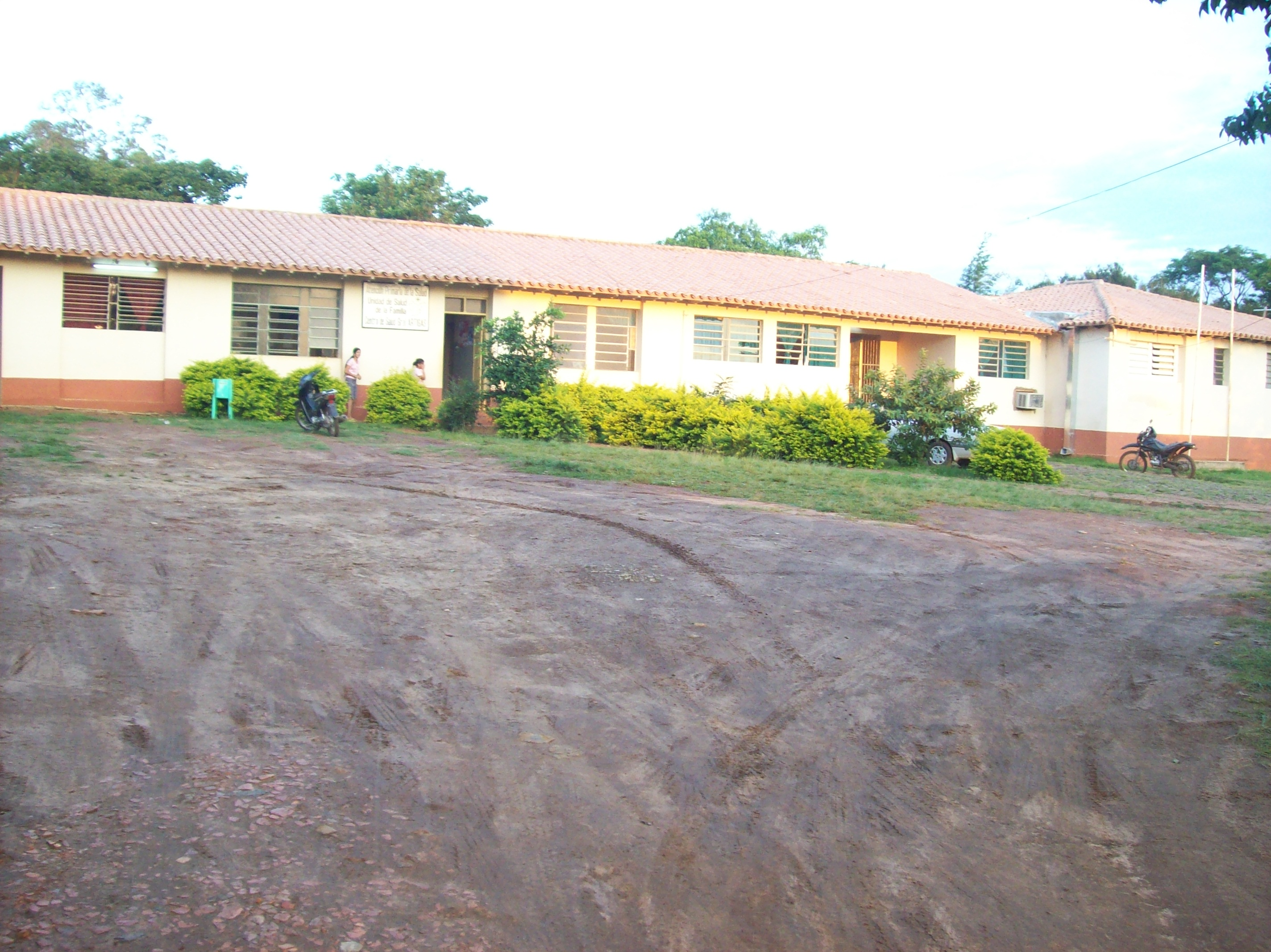 Local del Centro de Salud